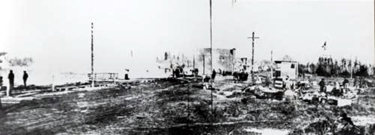 Smoldering embers from the fire of 1906. From center of town looking north. Nooksack after the fire.